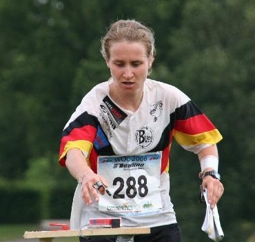 Karin Schmalfeld at WOC 2006. cropped version